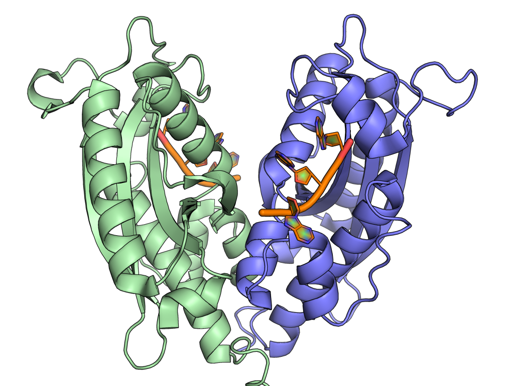 The dimeric ribonuclease enzyme RNase T. Subunits shown in green and blue, with bound DNA shown in orange. Rendered using PyMol from PDB ID 3NH1. Hsaio et al. Structural basis for RNA trimming by RNase T in stable RNA 3'-end maturation. Nat Chem Biol 2011, PMID 21317904.